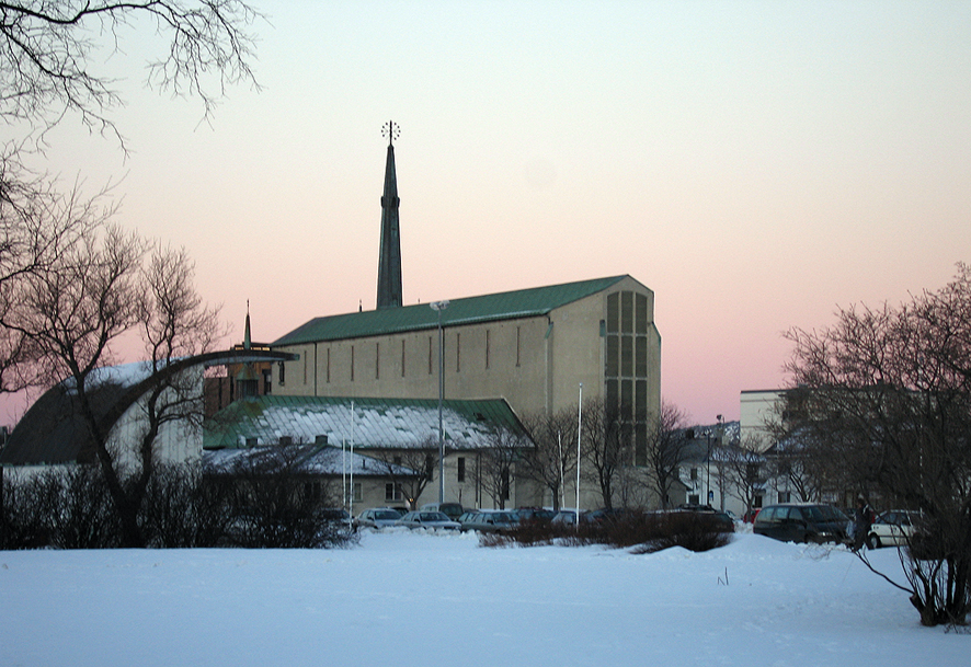 Bodø Cathedral seen from southeast, winter 2004